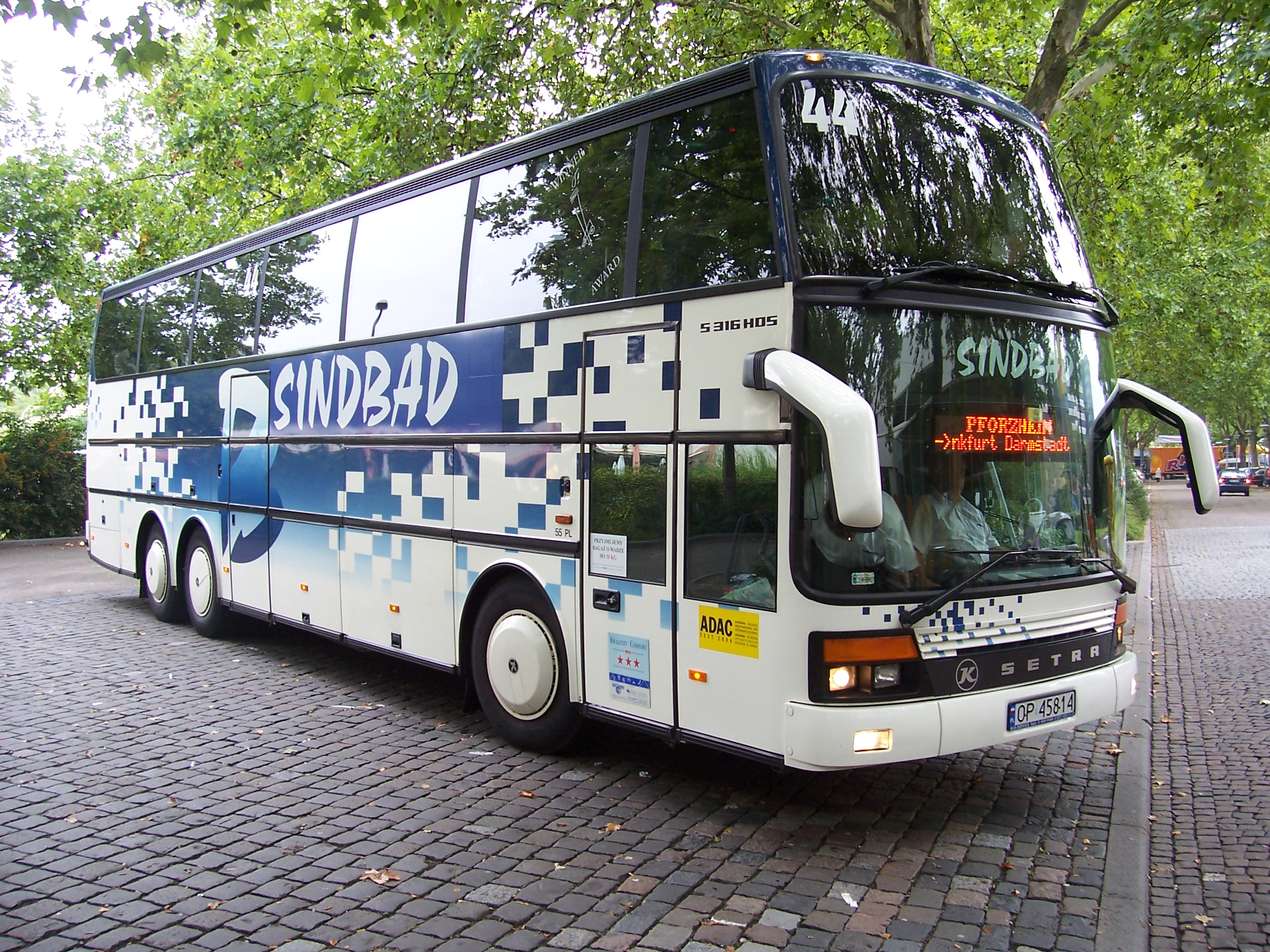 Setra S 316 HDS coach (#44) of the Polish private travel office Sindbad from Opole in Mannheim, Germany. Built 1997.